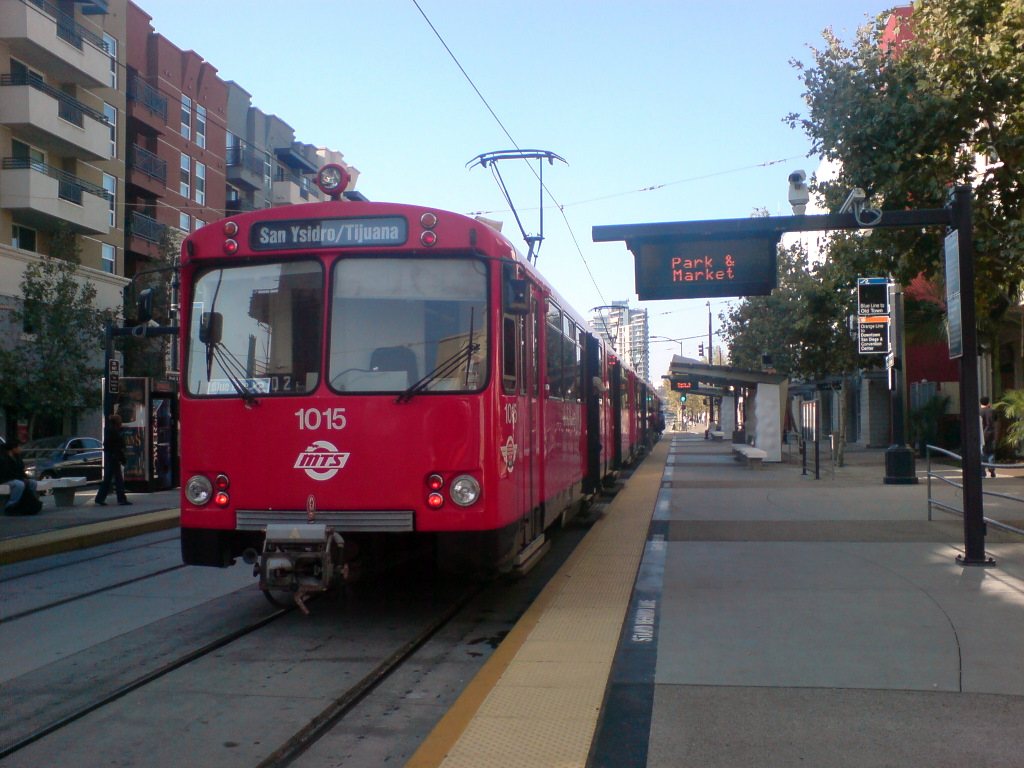 Blue Line Trolley in Downtown San Diego